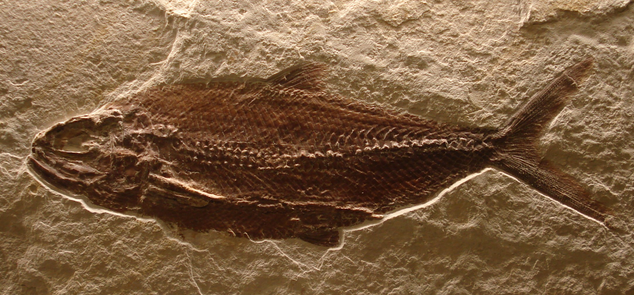 fossil of siemensichthys